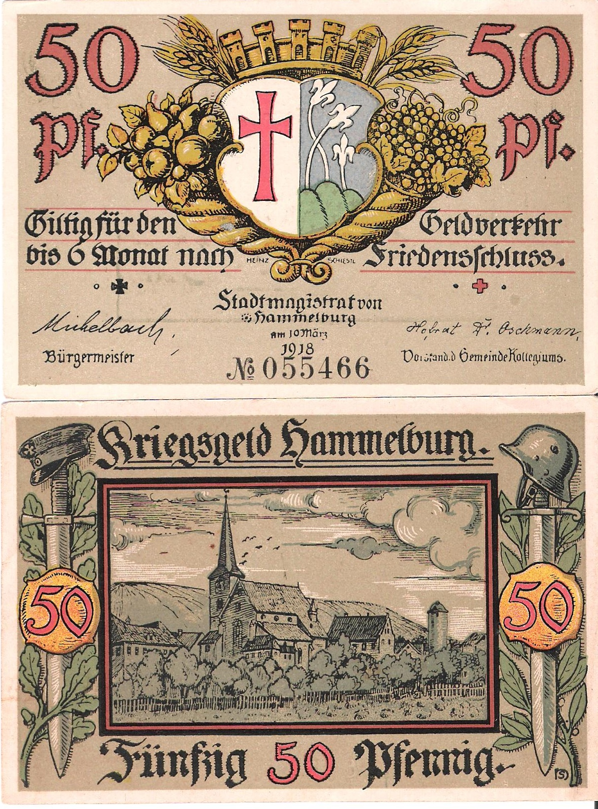 local emergency money, Hammelburg 1918